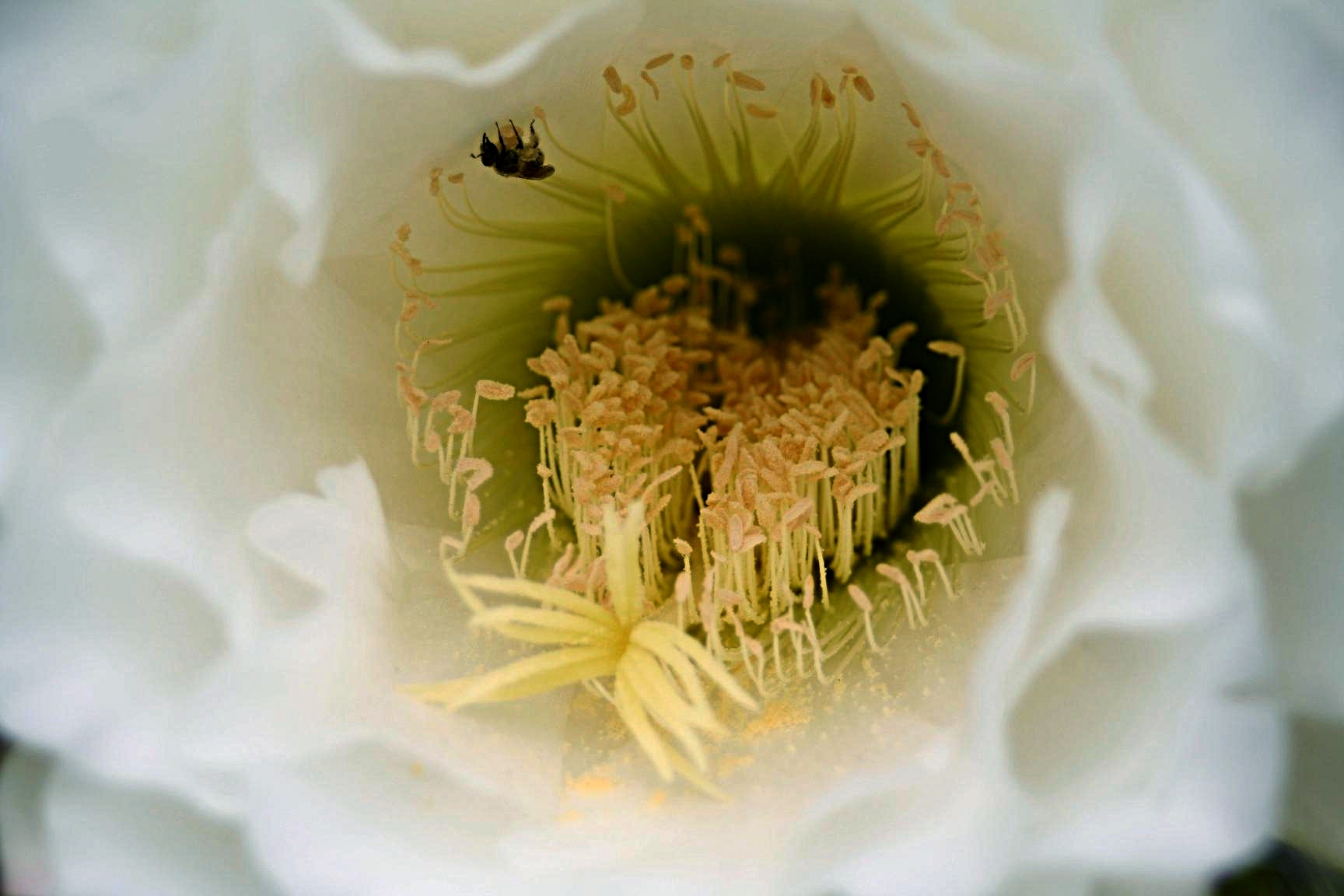 Cactus Flower with insect